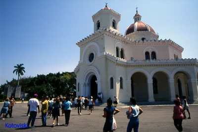 The church at the Columbus Cemetery (Necropolis de Colon) in La Habana, Cuba Photograph by Henryk Kotowski